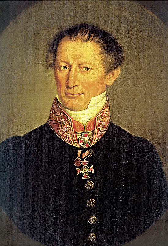 Portrait of Atanasije Stojković by 18th-century painter Pavle Djurković